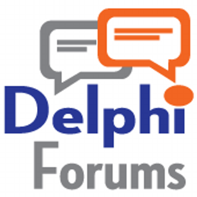 Delphi logo 2016